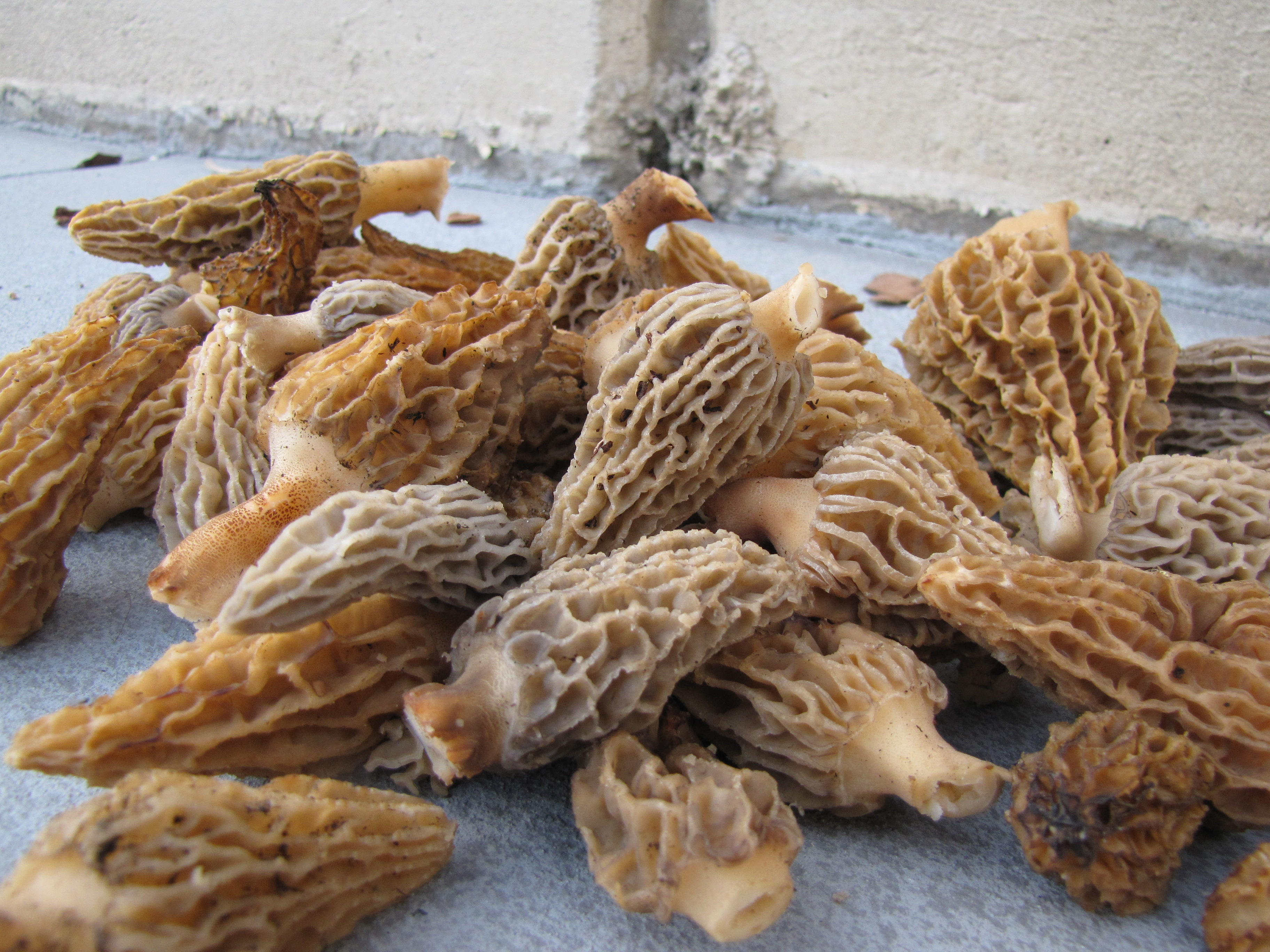 Fruit bodies of the morel fungus Morchella rufobrunnea Guzmán & F. Tapia. Found growing in beauty bark wood chip landscaping on Genentech Campus, South San Francisco, California, USA.